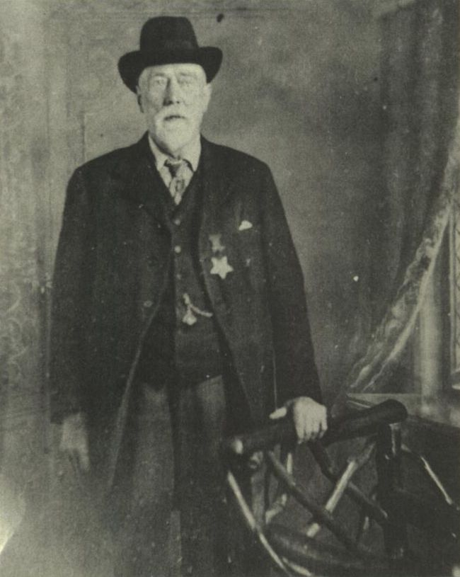 United States Navy sailor George H. Bell was awarded the Medal of Honor for his actions in the American Civil War.